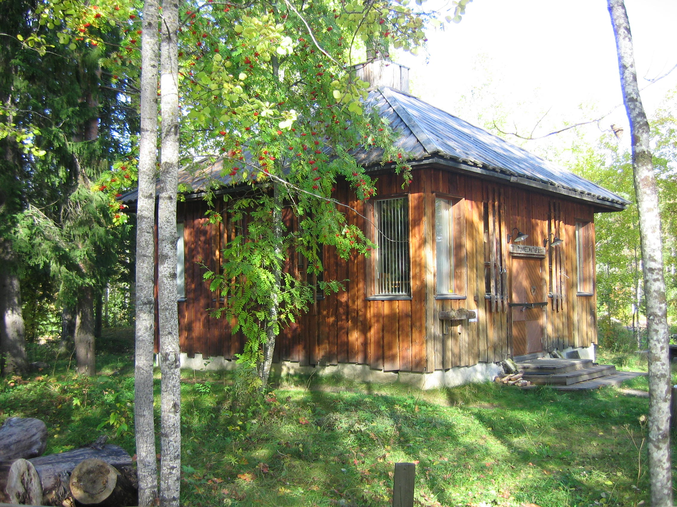 The "Tunnelmatupa" cafe at the Koitelinkoski rapids of Kiiminginjoki, in Kiiminki, Finland.